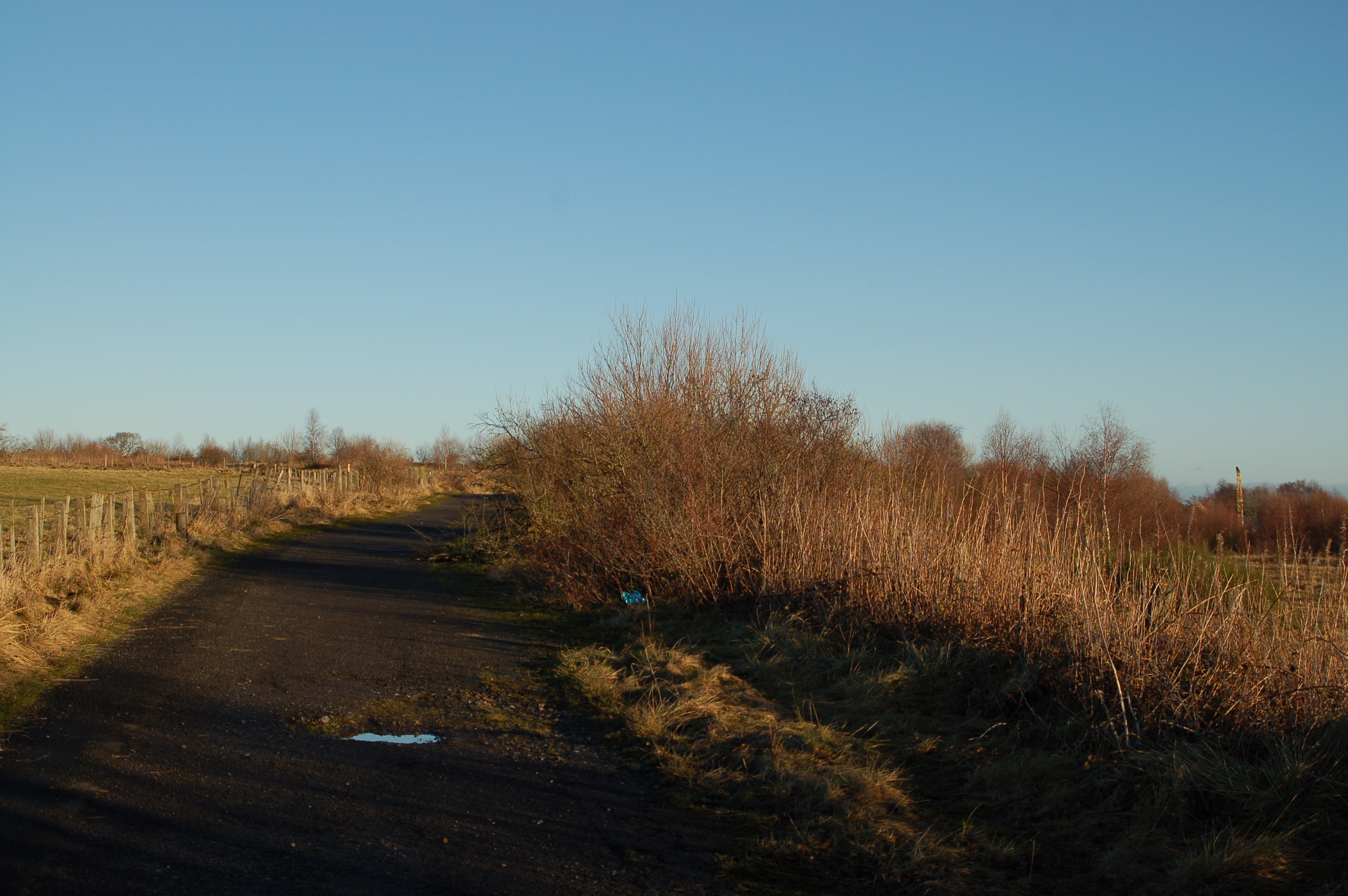 Looking up St. Cuthbert's Road towards the the site of Marley Hill Colliery. The area to the right of the camera was at one time occupied by a cokeworks, and the crane visible in the background is in the storage yard adjacent to Marley Hill Shed on the Tanfield Railway.